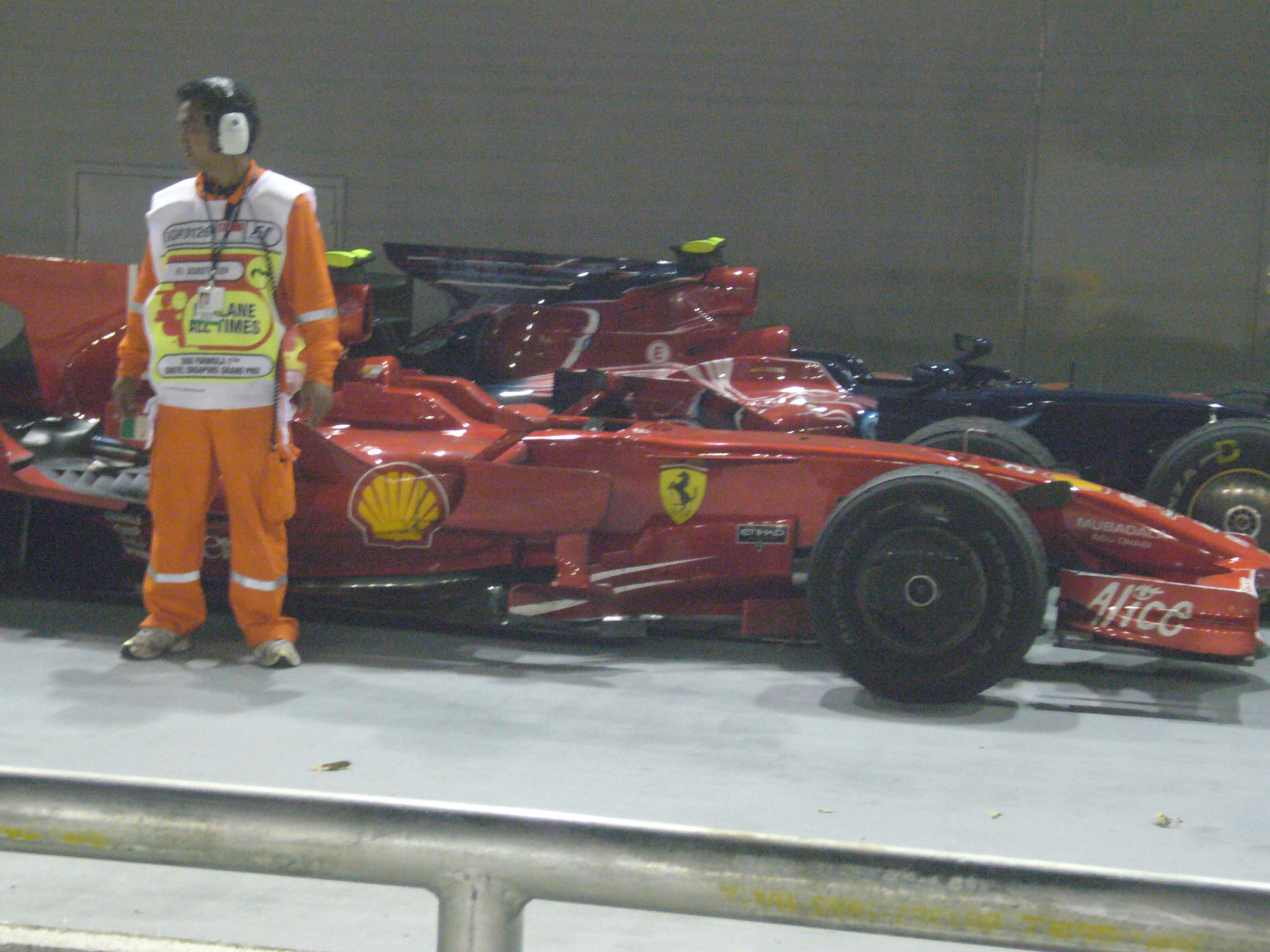 Felipe Massa's F2008 before entering the Scrutineering garage at the 2008 Singapore Grand Prix